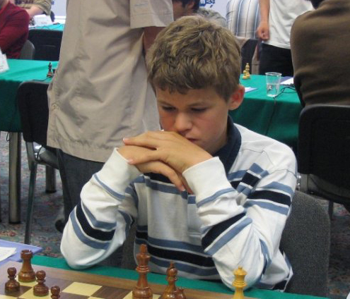 Magnus Carlsen, Warsaw 2005